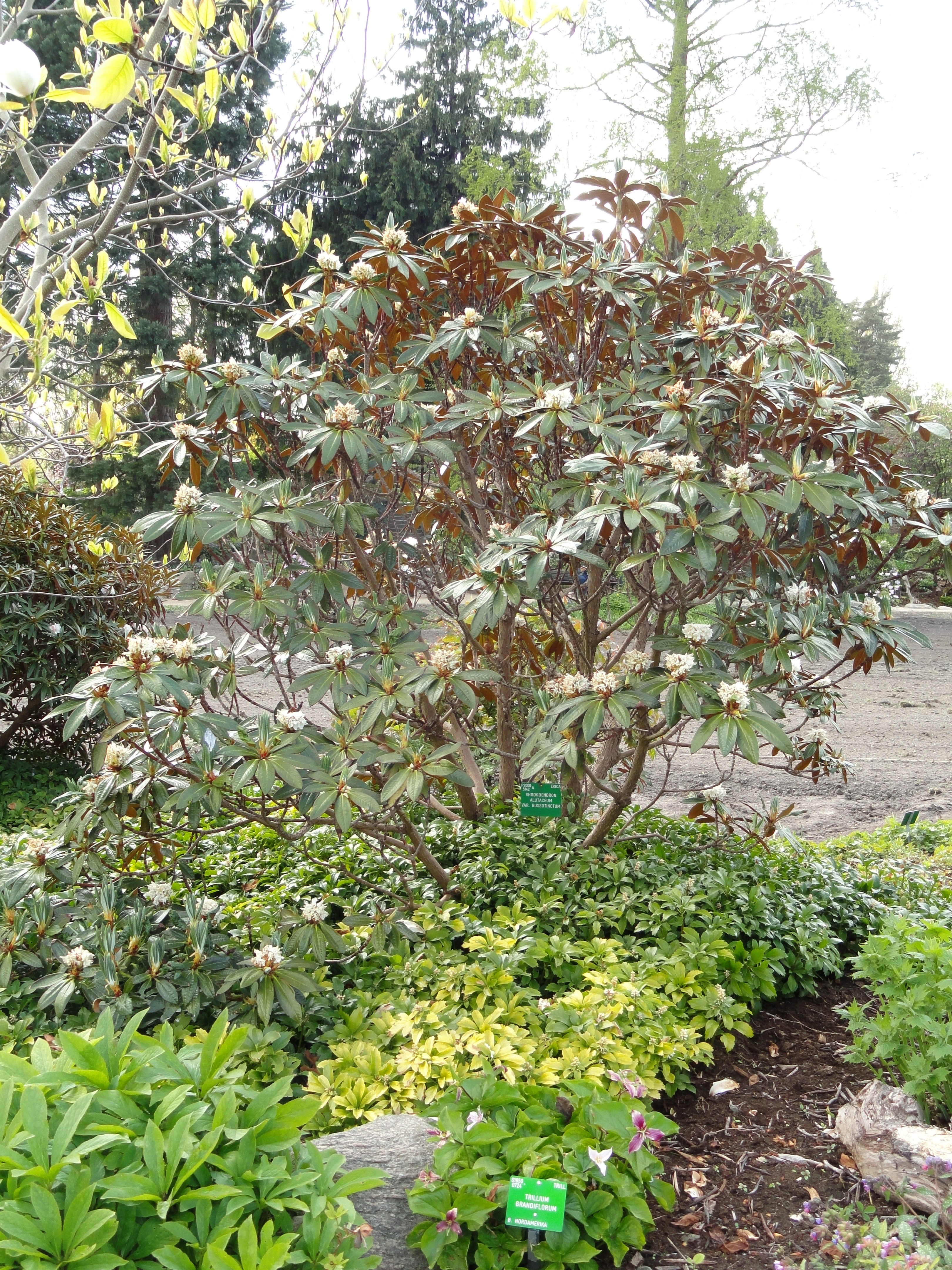 Rhododendron alutaceum var. russotinctum specimen in the University of Copenhagen Botanical Garden, Copenhagen, Denmark.